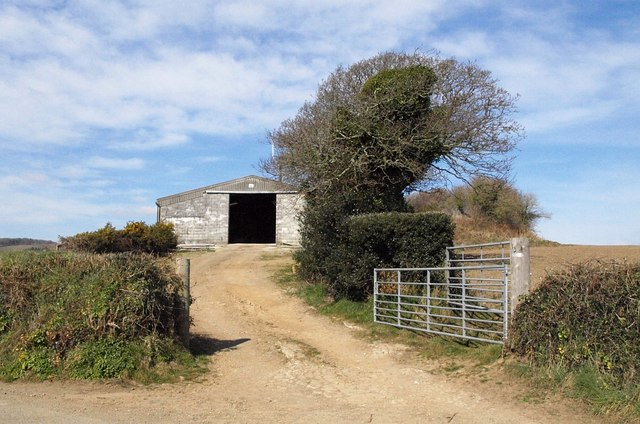 South Fowey Consols Mine This barn seems to have been built beside the shaft and spoil heap of the disused mine.